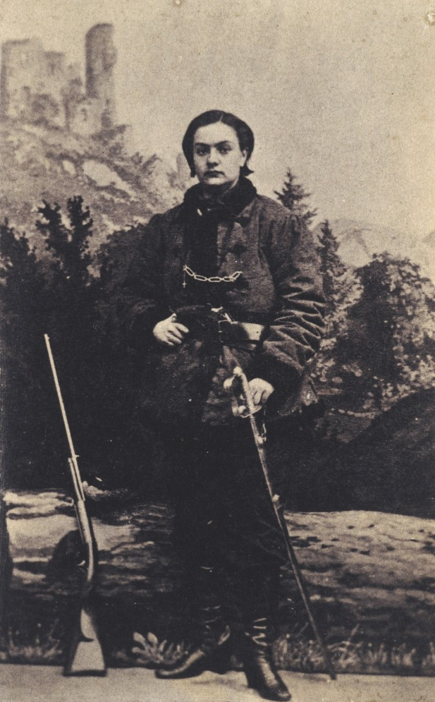 Anna Pustowójtówna, soldier in January Uprising 1863